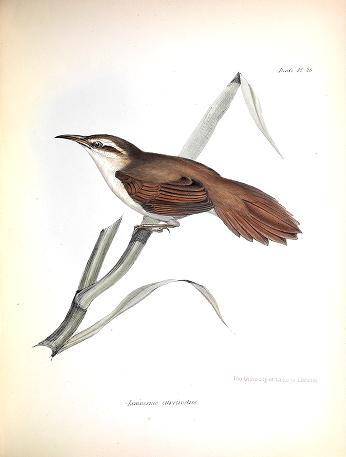 Curve-billed reedhunter Limnornis curvirostris. John Gould, 1841